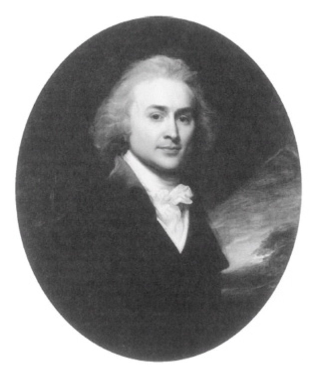 John Quincy Adams